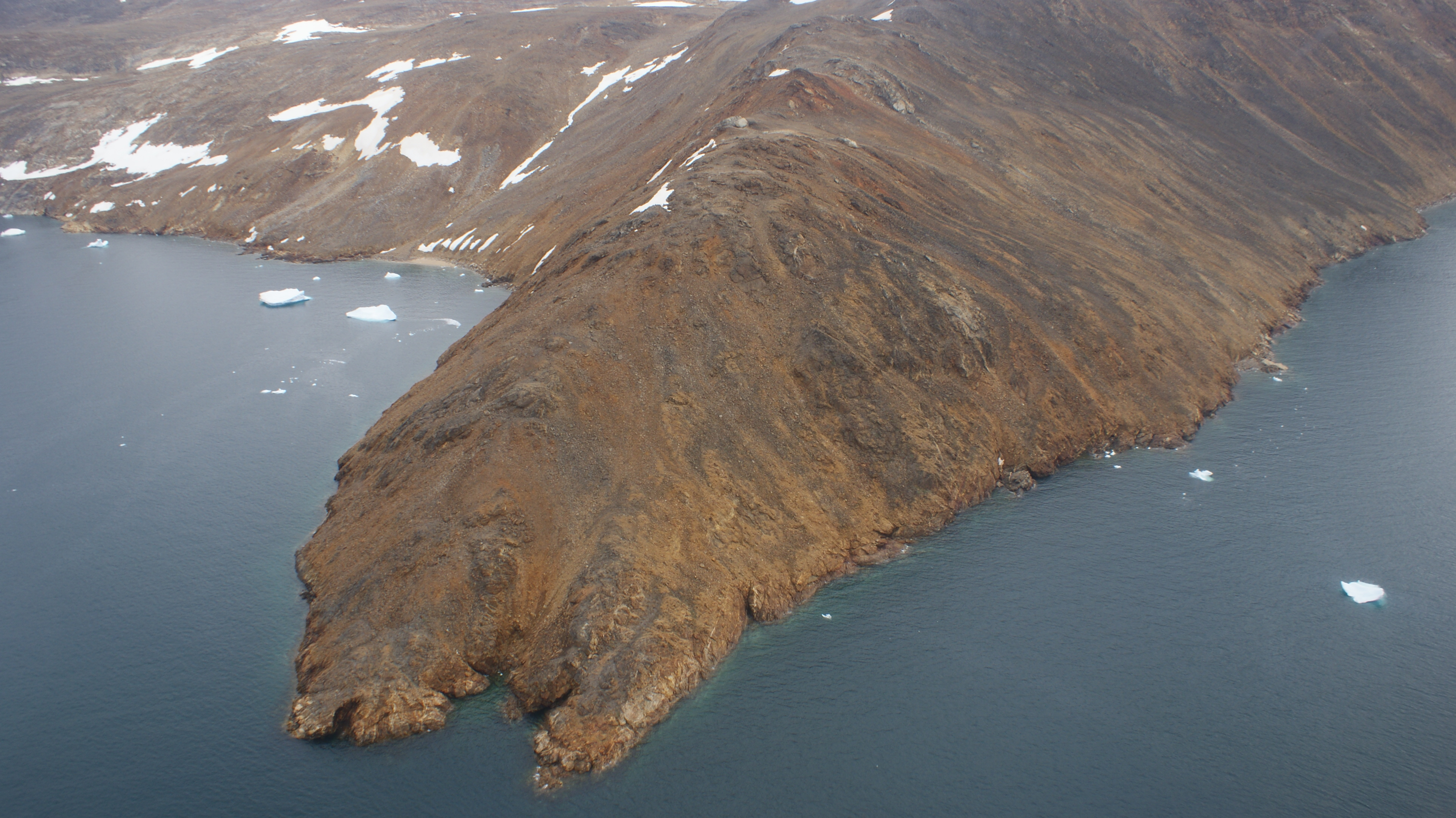 Aerial view of the southwestern shore of Qullikorsuit Island, Upernavik Archipelago, Greenland. Photographed in poor visibility conditions from the Air Greenland Bell 212 helicopter during the Upernavik-Kullorsuaq flight.